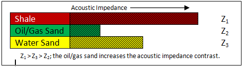 Diagram showing the acoustic relationship that results in a seismic bright spot.